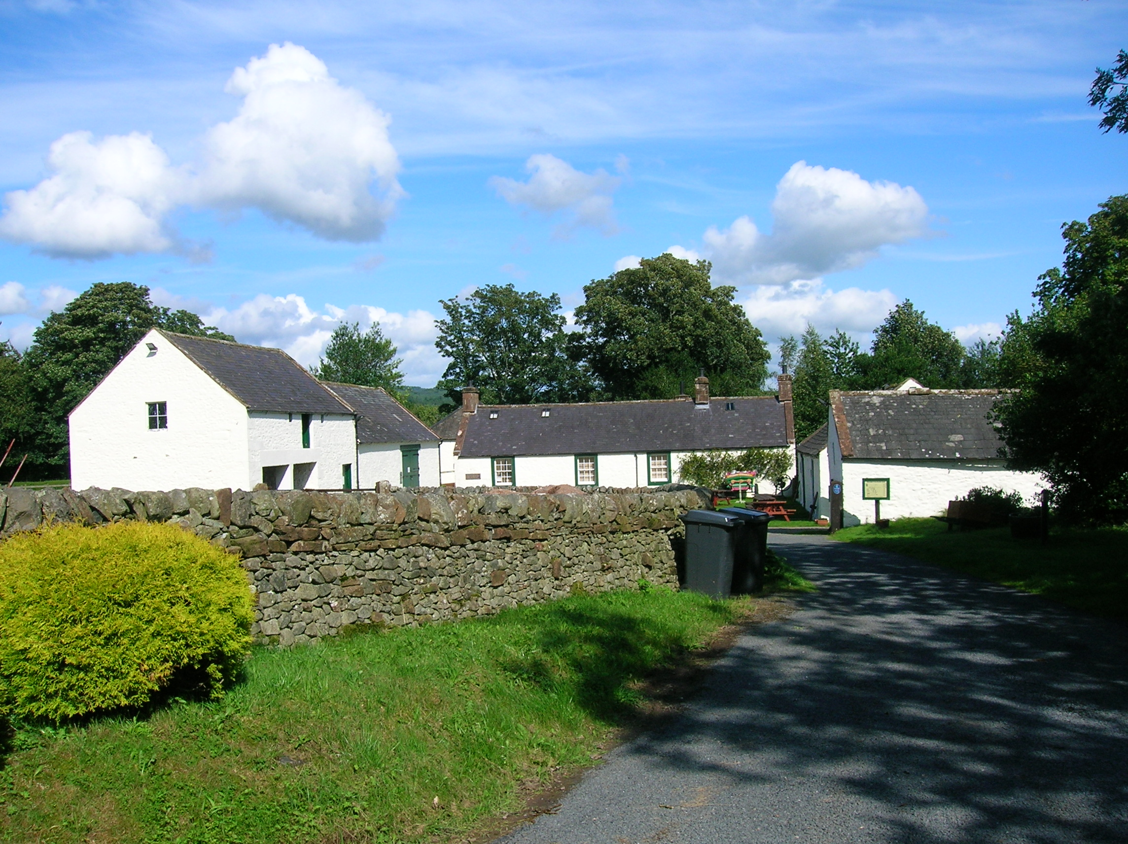 Ellisland Farm from the approach lane. Auldgirth, Scotland